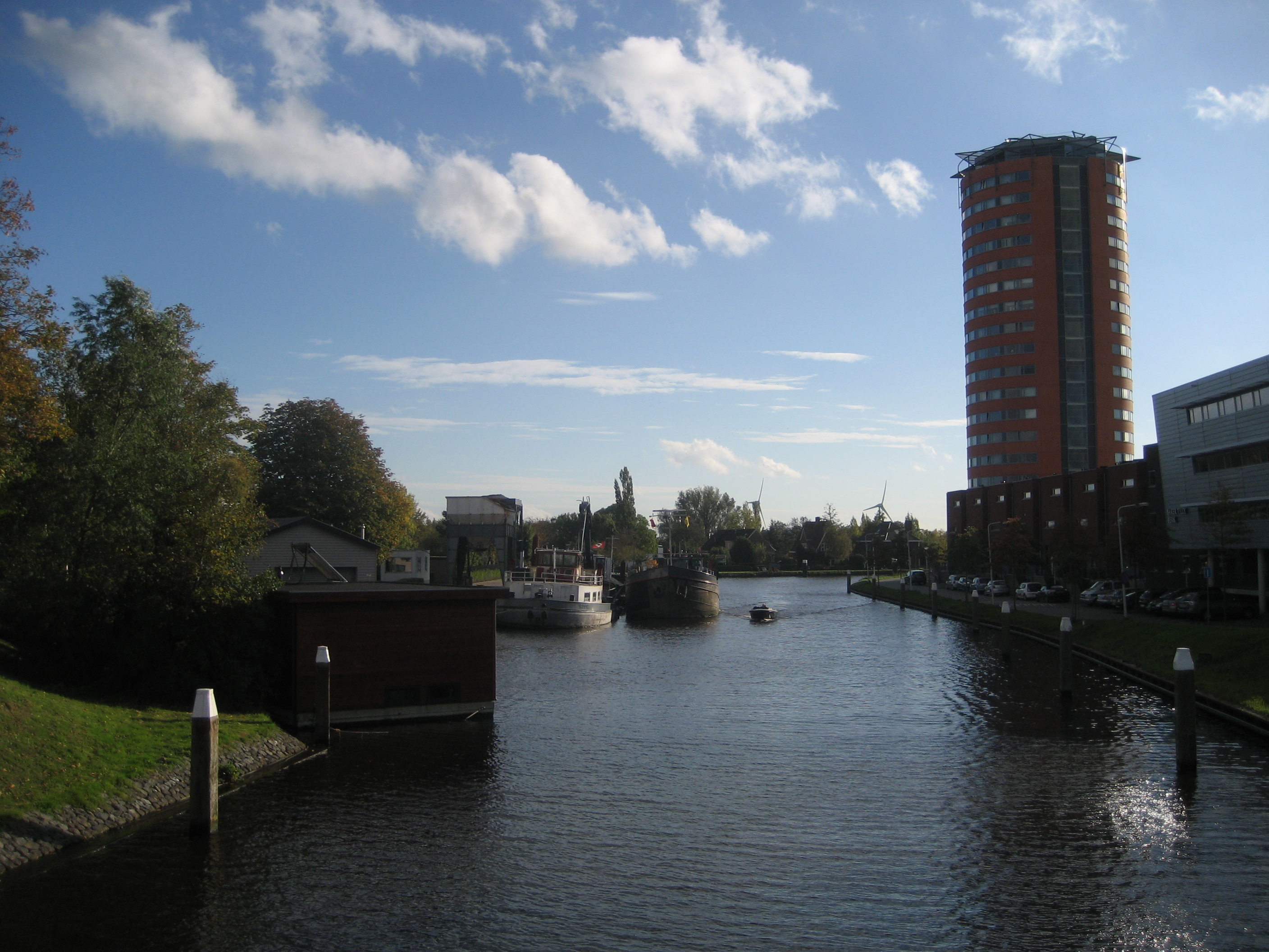 Apartment building Vlietpoort in Leiden (S2 Architecten). This is also the end of the Trekvliet canal.